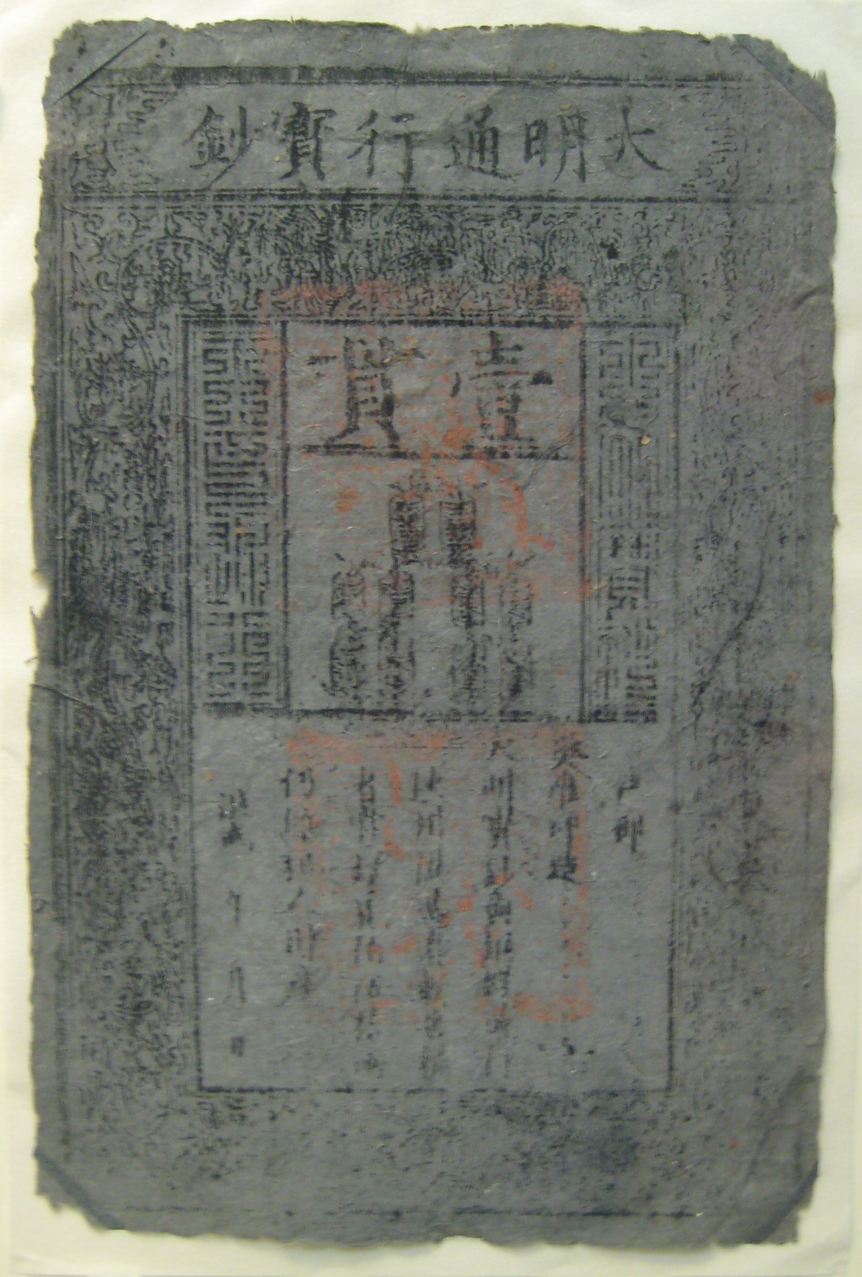 Chinese Ming banknote for 1 guan (1 string of 1000 cash), China, AD 1375. Seal script inscription (two vertical lines, reading right-to-left on either side of "1 Guan"): 大明寶鈔 / 天下通行 "Great Ming precious money, for circulation throughout the empire".